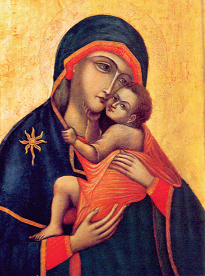 Byzantine style icon "La Bruna", for more information see santuariocarminemaggiore.it (Italian)